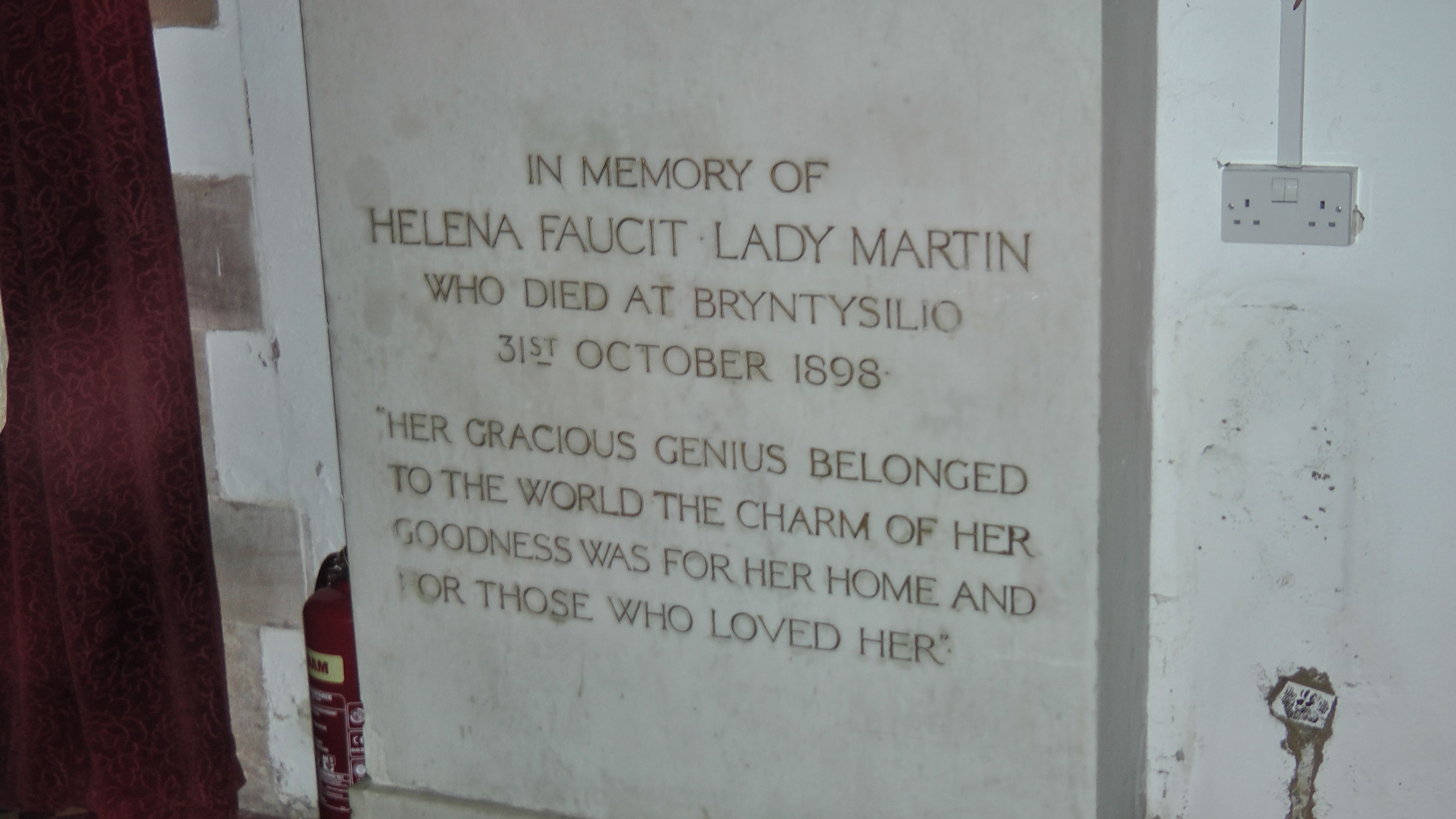 Memorial to Helen Faucit (Lady Theodore Martin) the celebrated shakespearean actress.